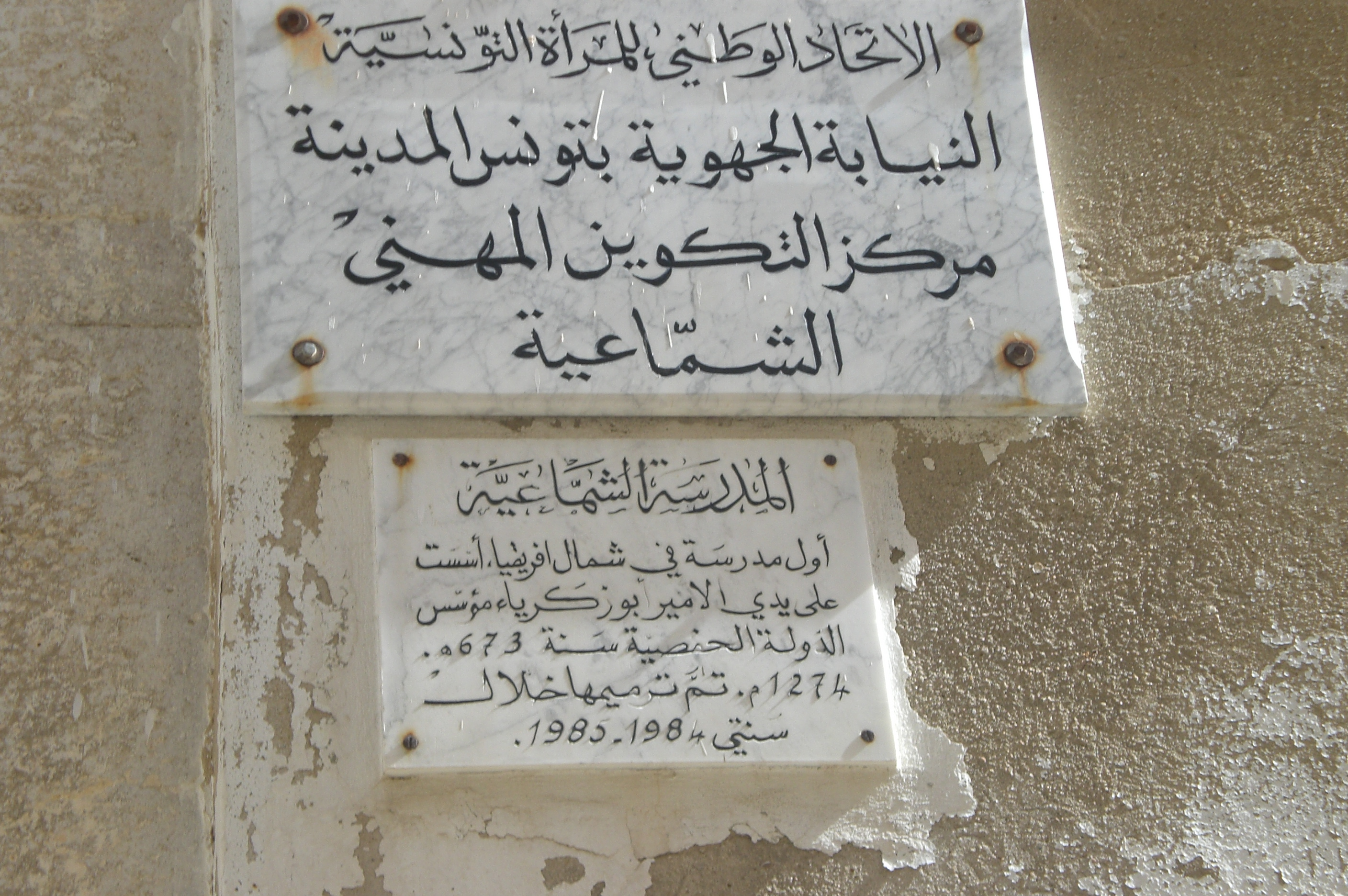 Inscription of Medersa Chamaiya-Tunis